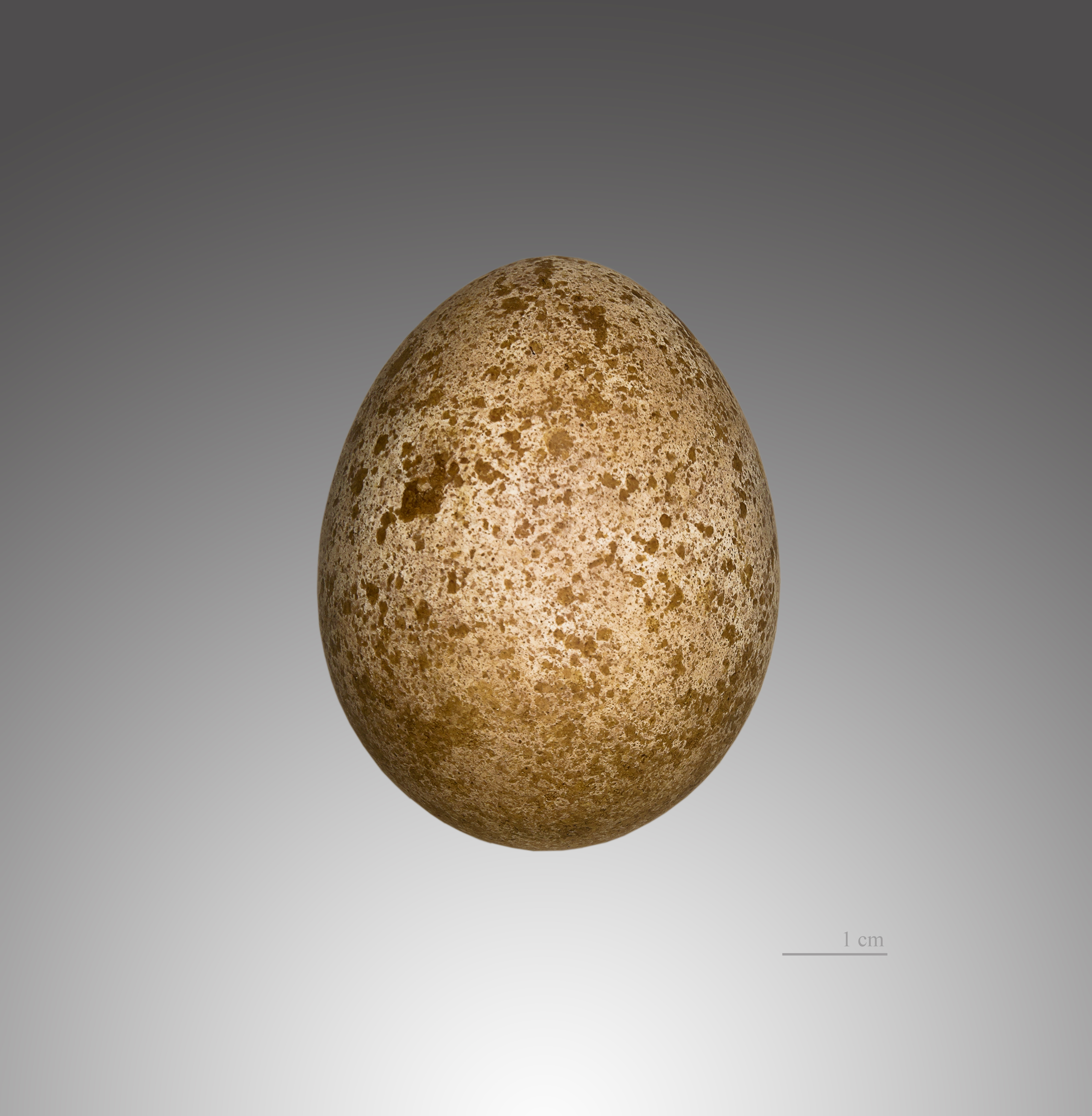 Egg of Saker Falcon. Collection of René de Naurois /Jacques Perrin de Brichambaut. Locality: Ukraine.